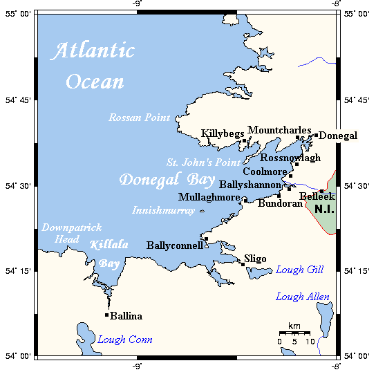 A map showing Donegal Bay and nearby areas. This map's source is here, with the uploader's modifications, and the GMT homepage says that the tools are released under the GNU General Public License.